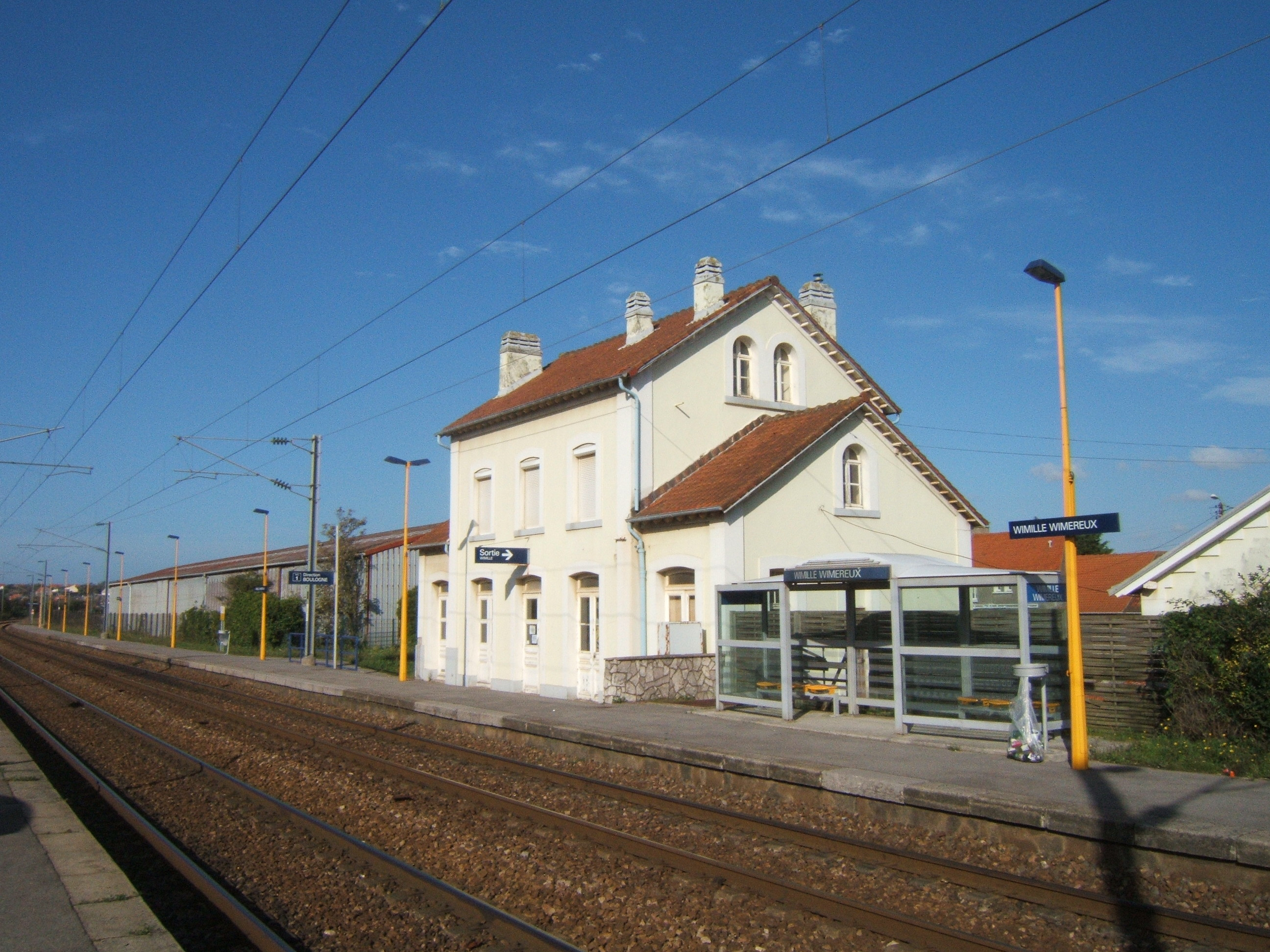 Wimille Station on the coastline close to Boulogne